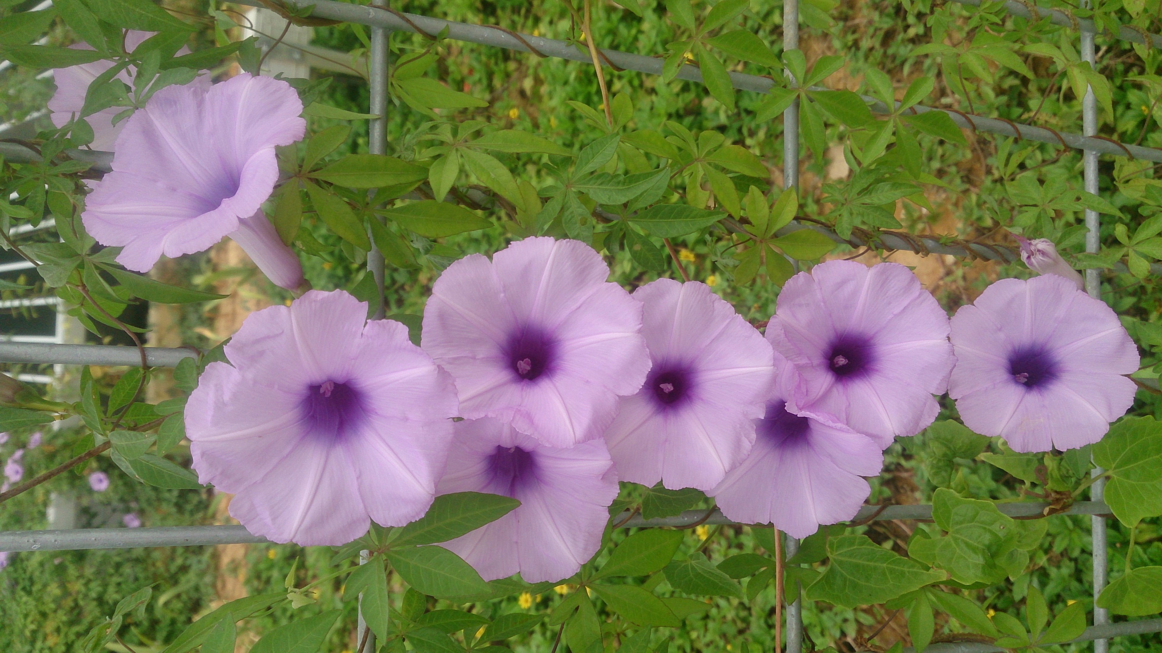 common names: mile-a-minute vine, railroad creeper (Ipomoea cairica)